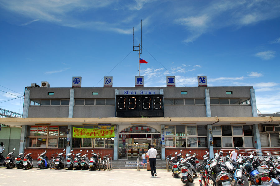 ShaLu Station is a major train station of Taiwan's Western main rail line. It's the main station of ShaLu Town, TaiChung County, and the most important station alongside the Coast Line (part of western main line).